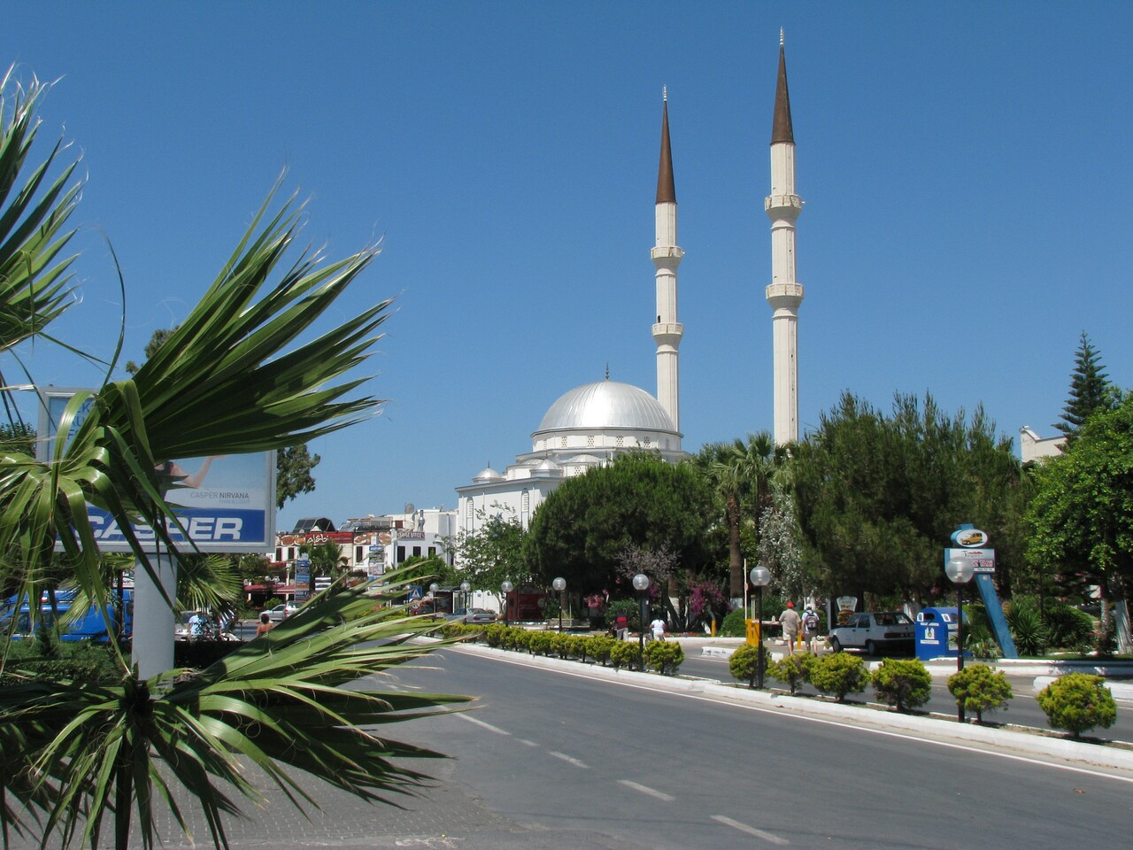 Turgutreis is a town in Turkey about a 60 minute drive from Bodrum International Airport. It is the second largest town on the Bodrum peninsula. The district, which comes under the City of Mugla and Bodrum Town, is in an area of 55,000 Hectare.